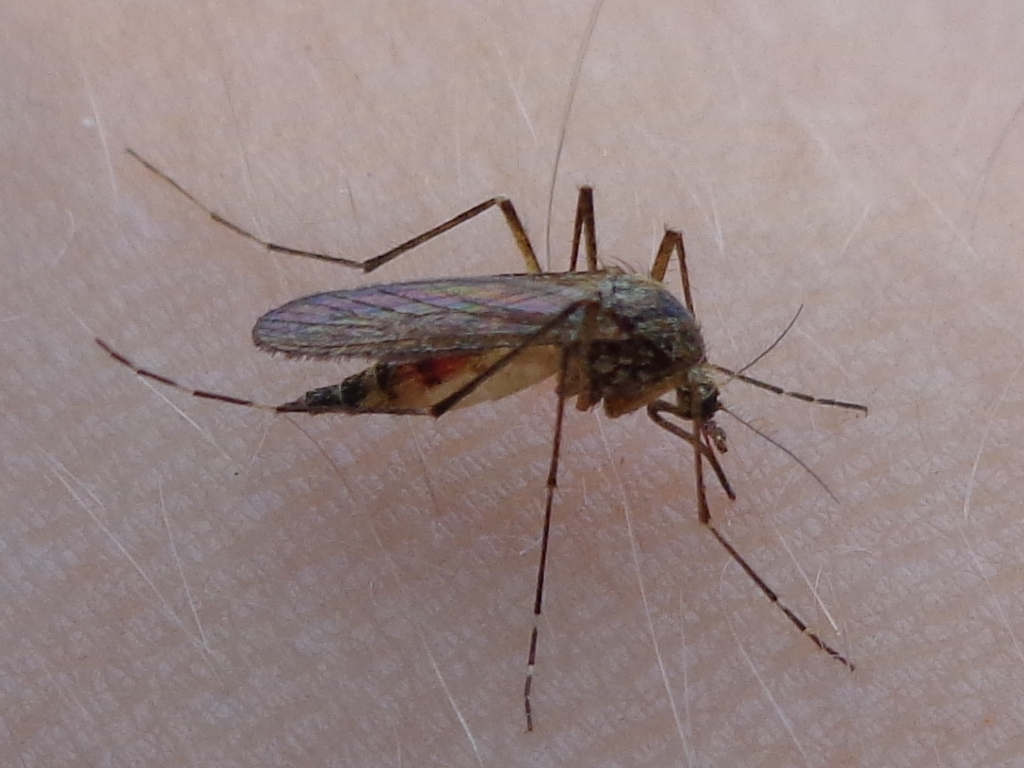 Coquillettidia richiardii ound in Riga town, Latvia